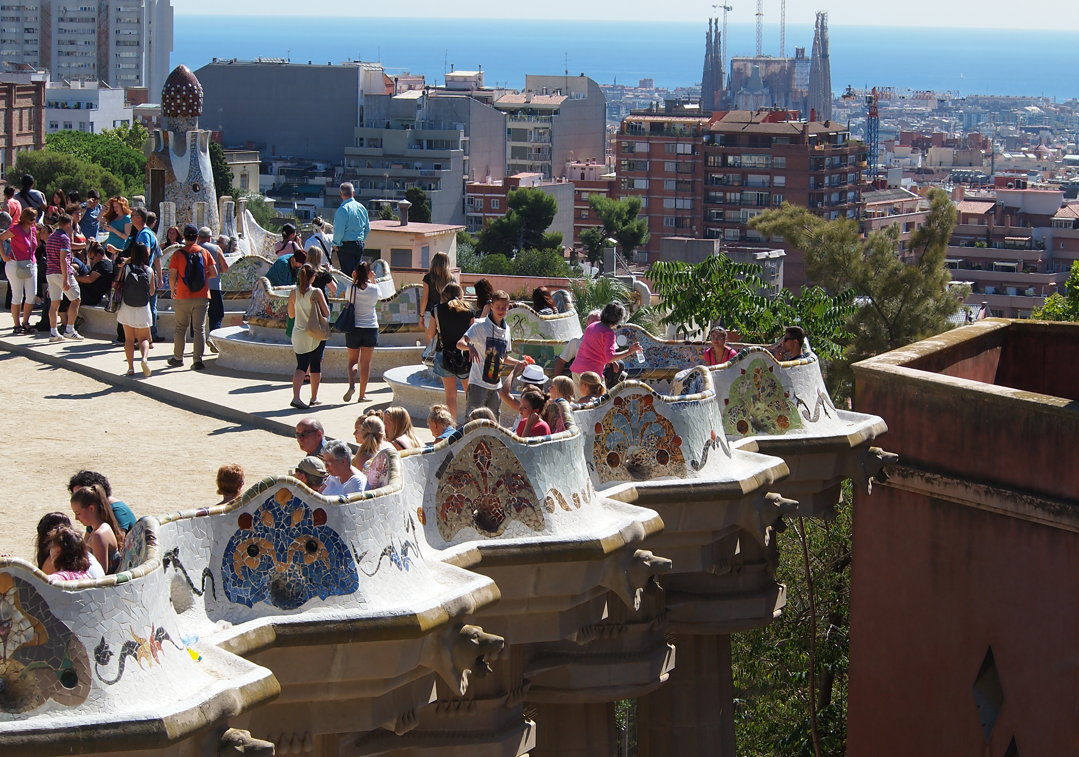 View from Park Guell on the terraces, the Sagrada Familia and the Mediterranean Sea